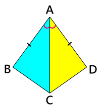 SAS